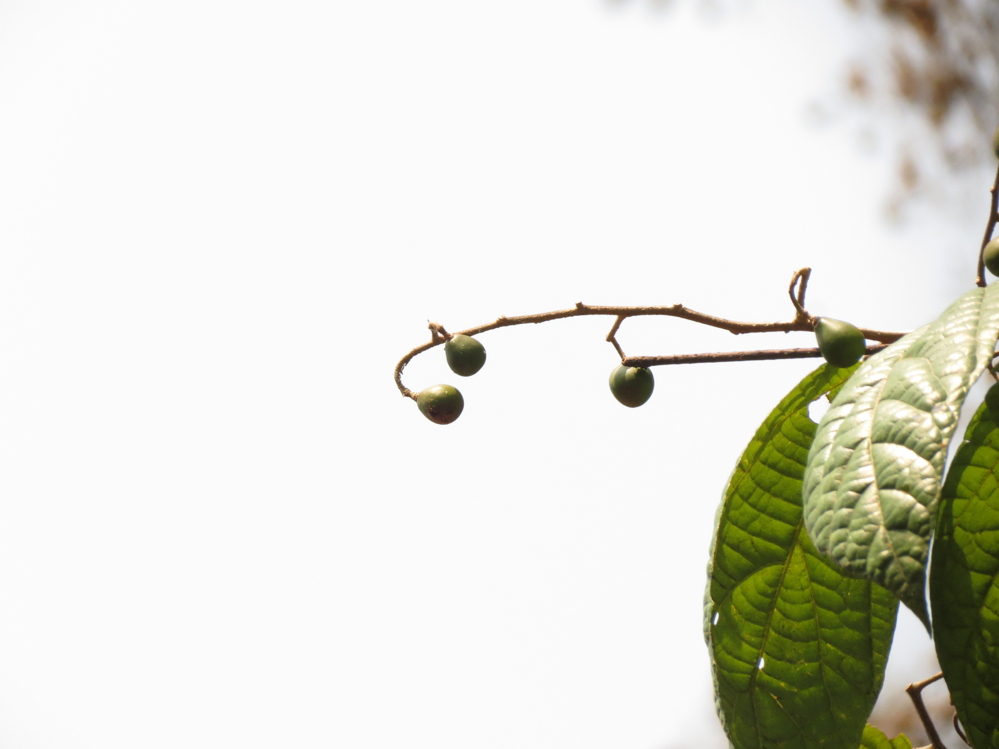 Grewia nervosa also known as Microcos paniculata seen in Sanquilim Goa.